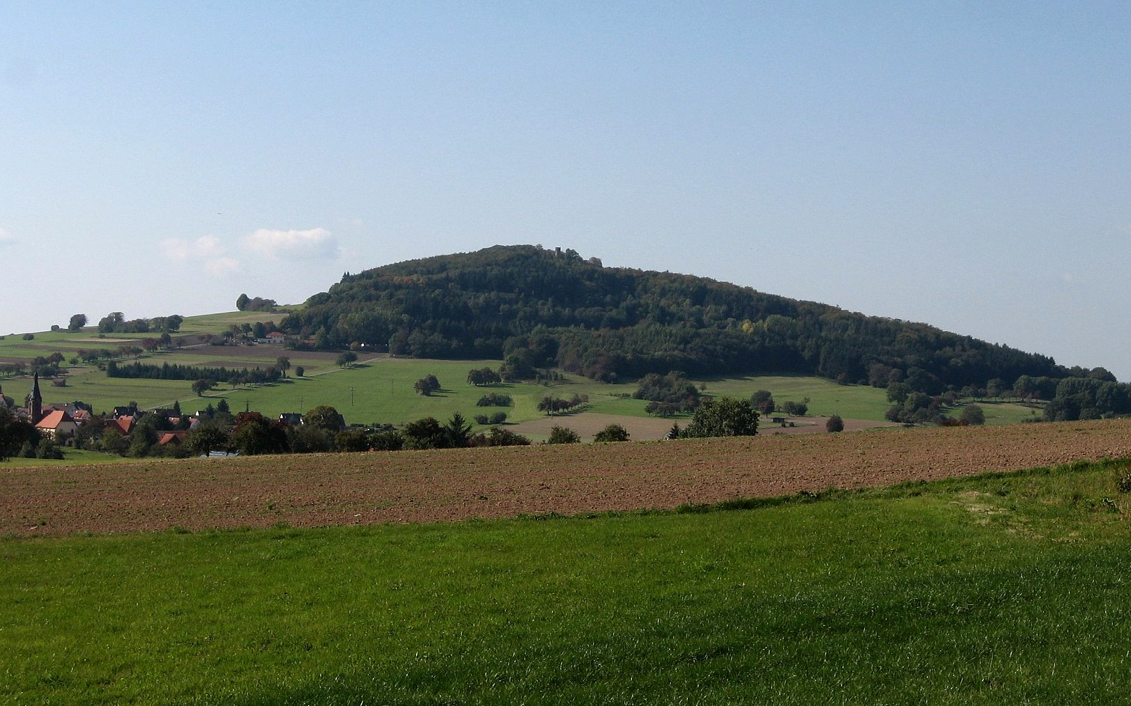 Germany / Odenwald mountain "Katzenbuckel"